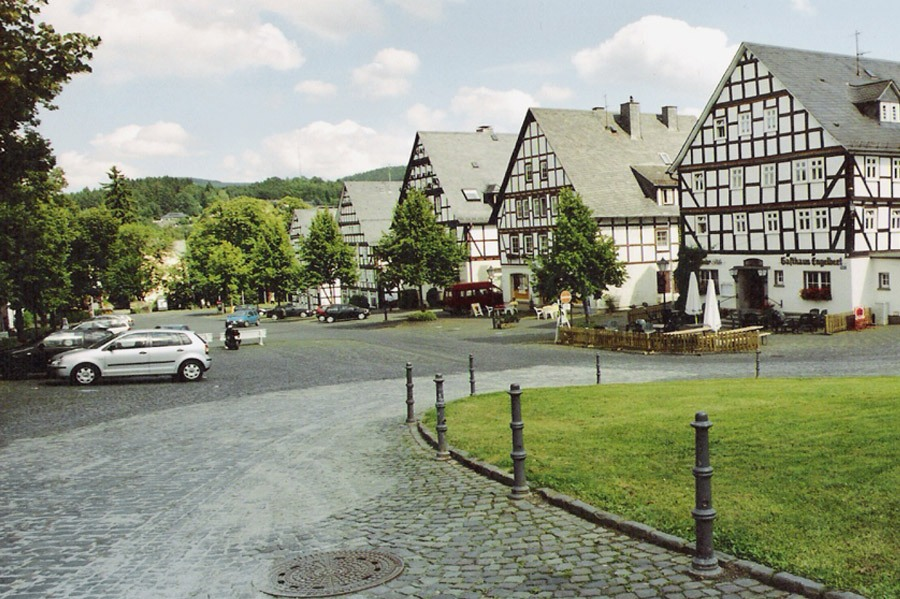 Idyllic part of Hilchenbach, North Rhine-Westphalia, Germany.